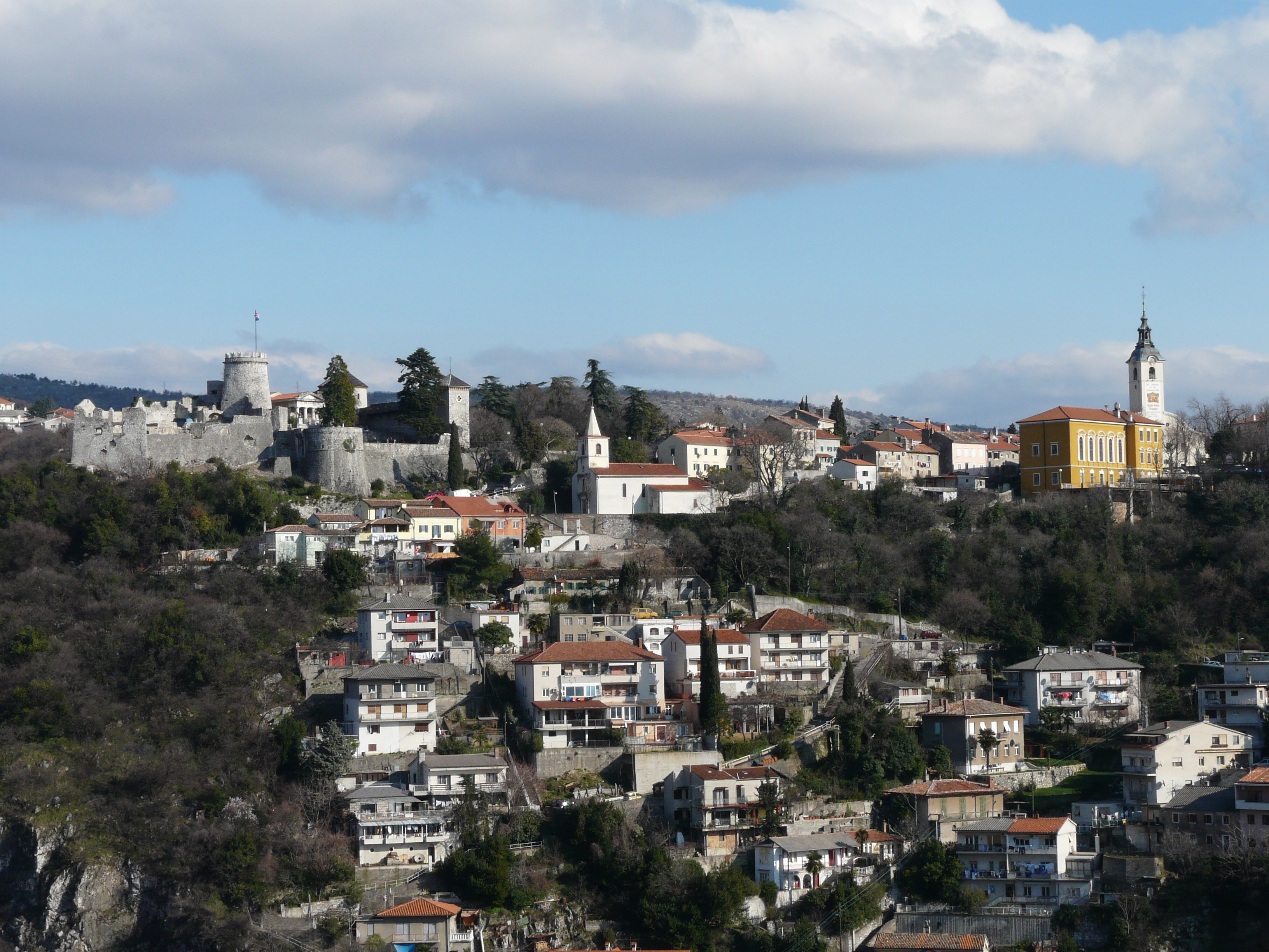 Trsat view from mountains behind Rijeka city 2008 year.